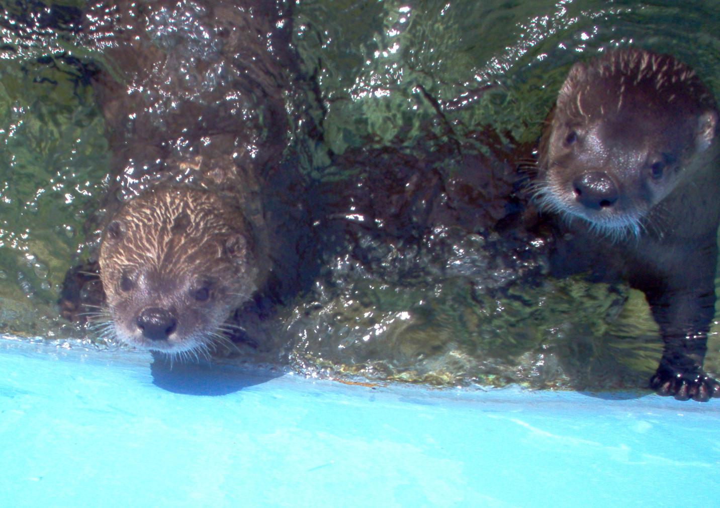 I Stu_pendousmat took this picture in the summer of 2006 with my junky old camera